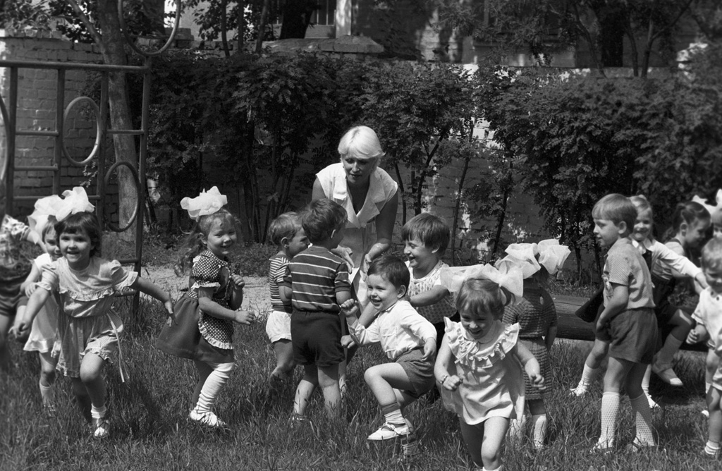 “Playground at company preschool of the Nikopol South Pipe Plant”. Children at company preschool of the Nikopol South Pipe Plant playing outdoors.